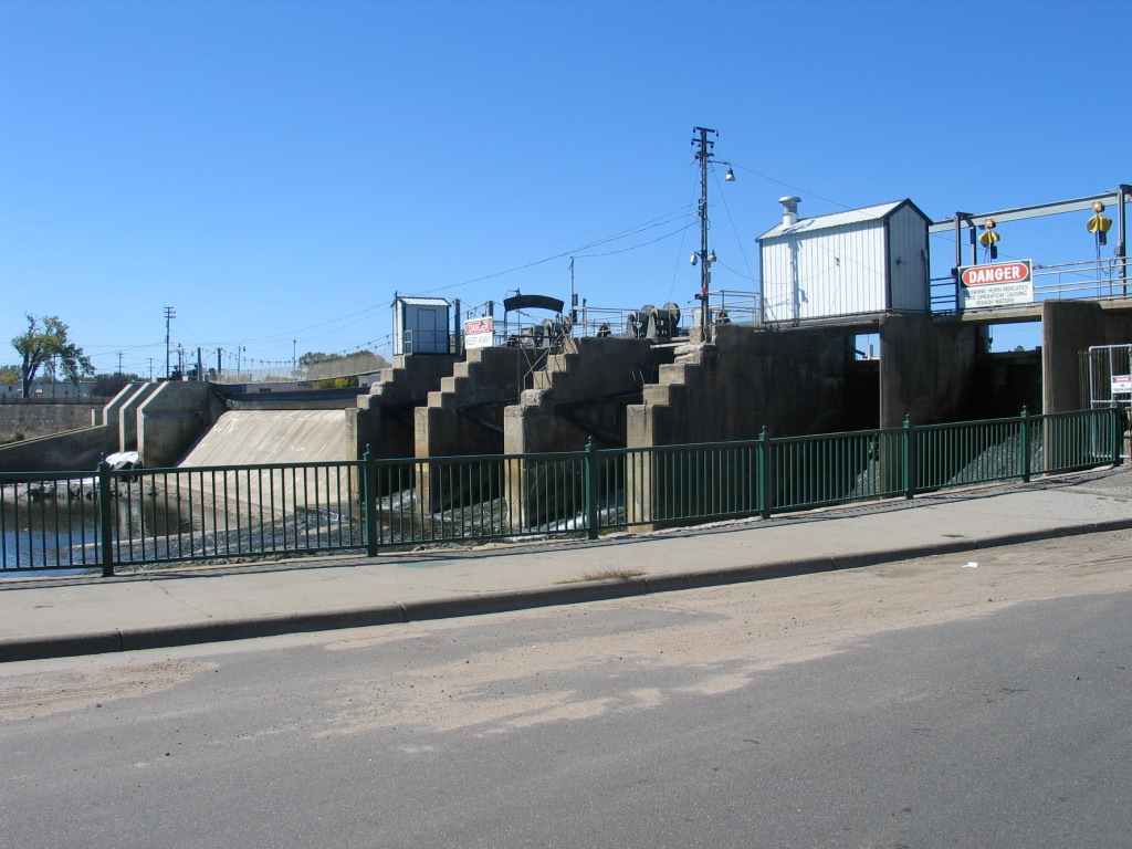 Little Falls Dam